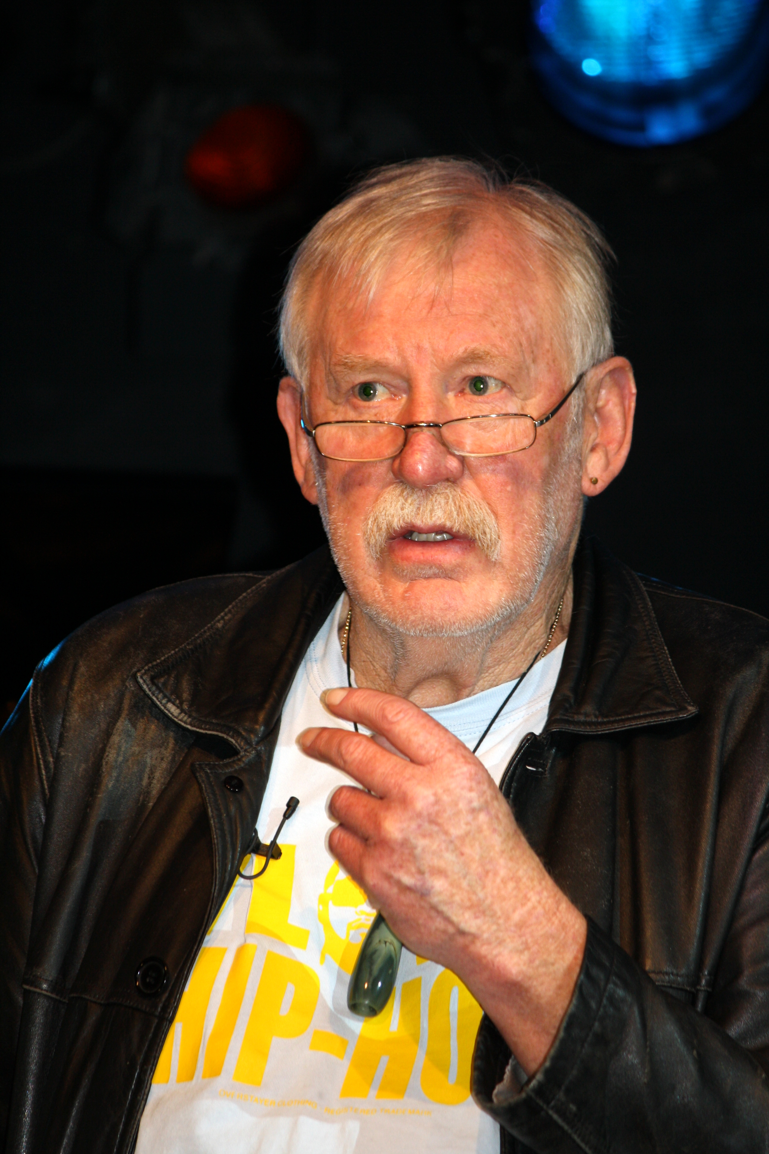 Richard Nunns in September 2011.